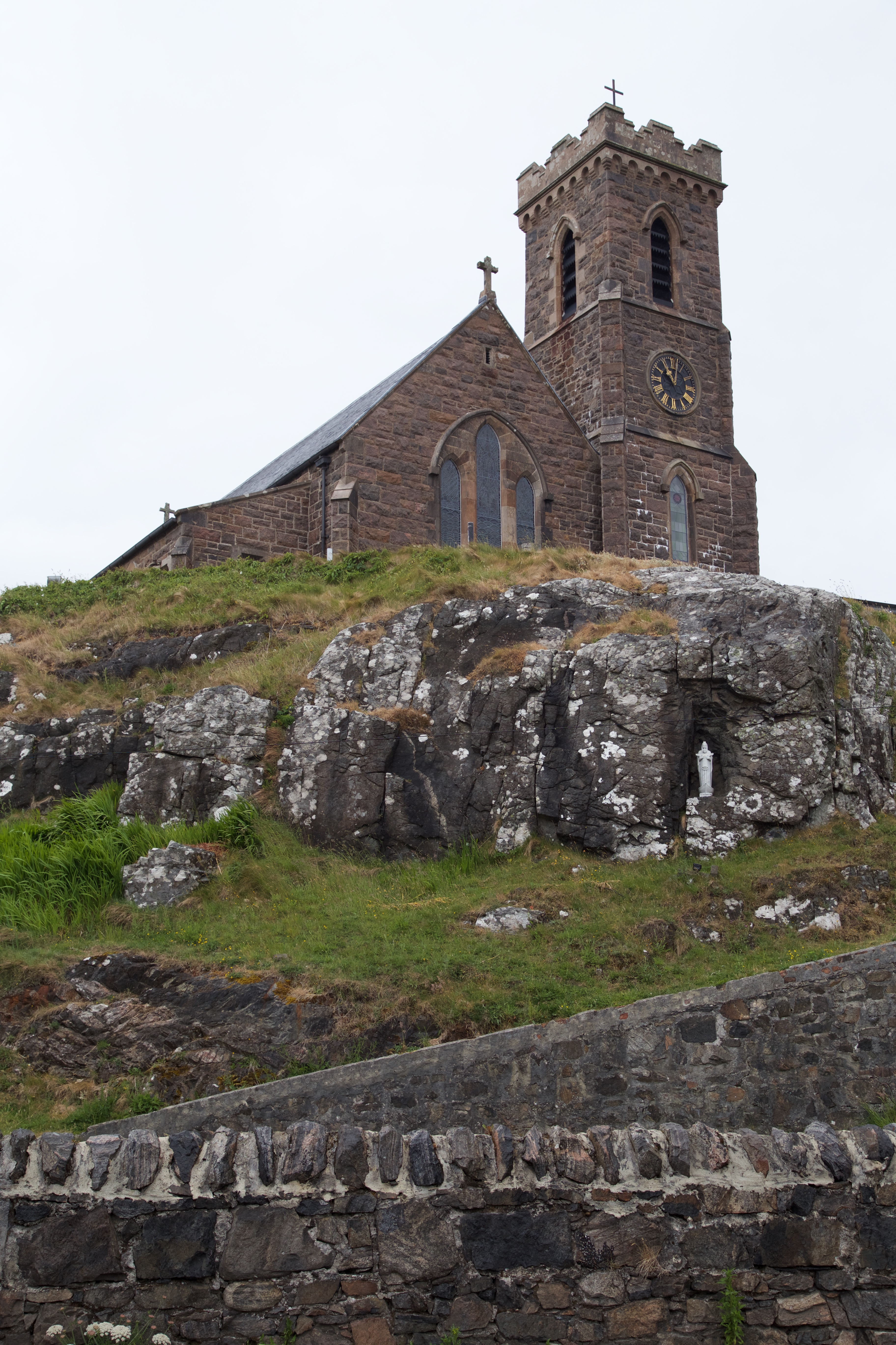 Barra, Castlebay, Church Of Our Lady Star Of The Sea Wikidata has entry Q17852905 with data related to this item.